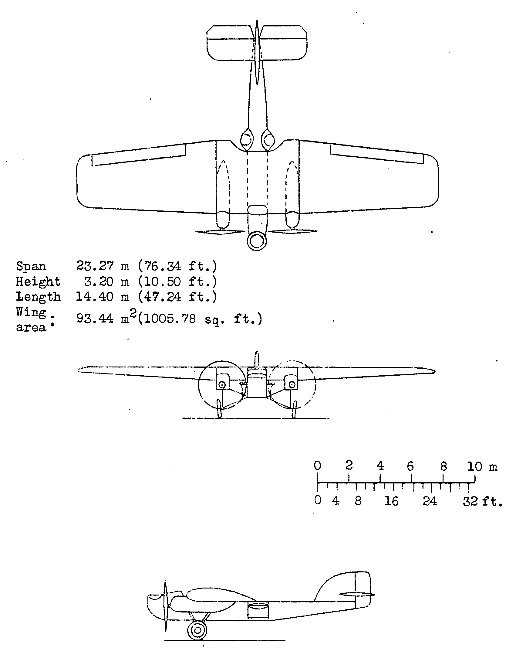 Blériot 137 3-view drawing from NACA-AC-169